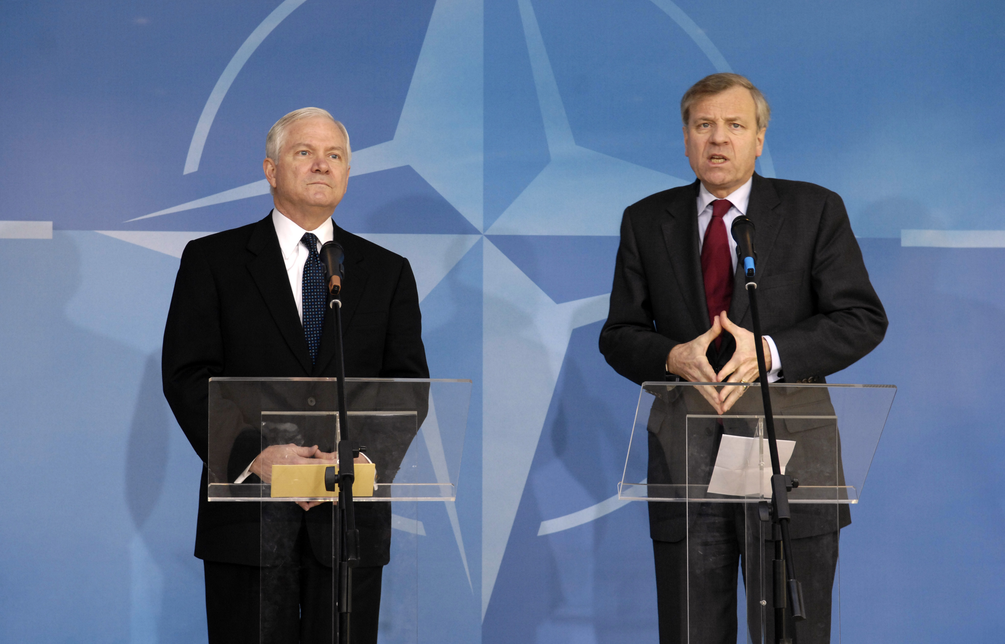 U.S. Defense Secretary Robert Gates, left, and NATO Secretary General Jaap de Hoop Scheffer conduct a press conference at the NATO headquarters in Brussels, Belgium.